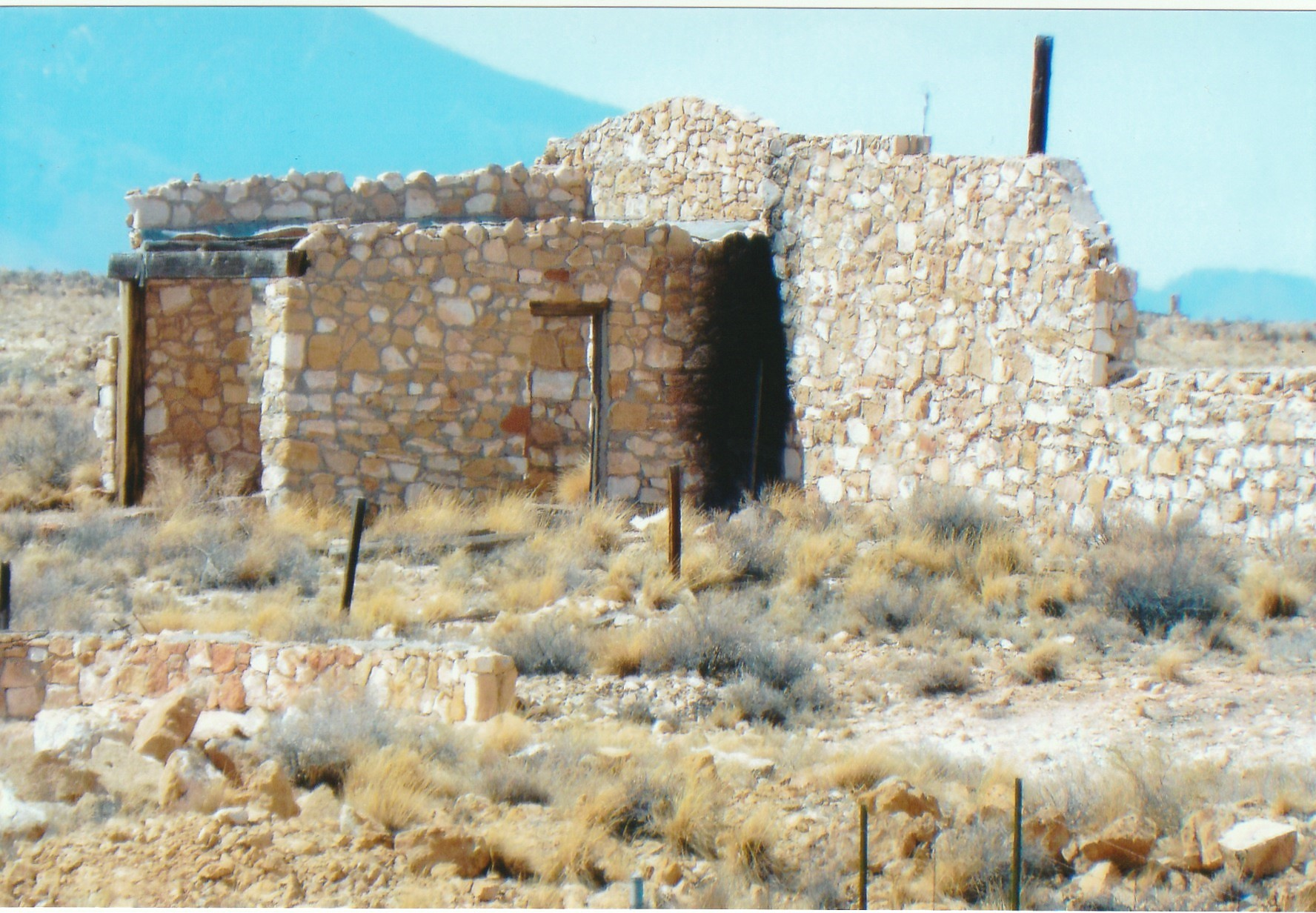 Ruins in Two Guns, Arizona (Miller Store)